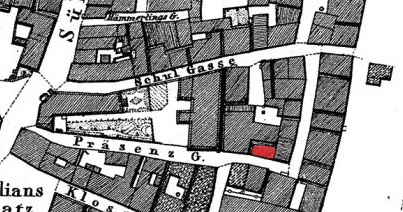 Heilbronn, Offizin des Buchdruckers Johann Christoph Leucht, Hrsg. d. "Wochentlich Heilbronnisches Nachricht- und Kundschaftsblatt", Kaiserstraße 33 (überarbeitet nach Archäolog. Stadtkataster Karte 4, Nr. 184).jpg